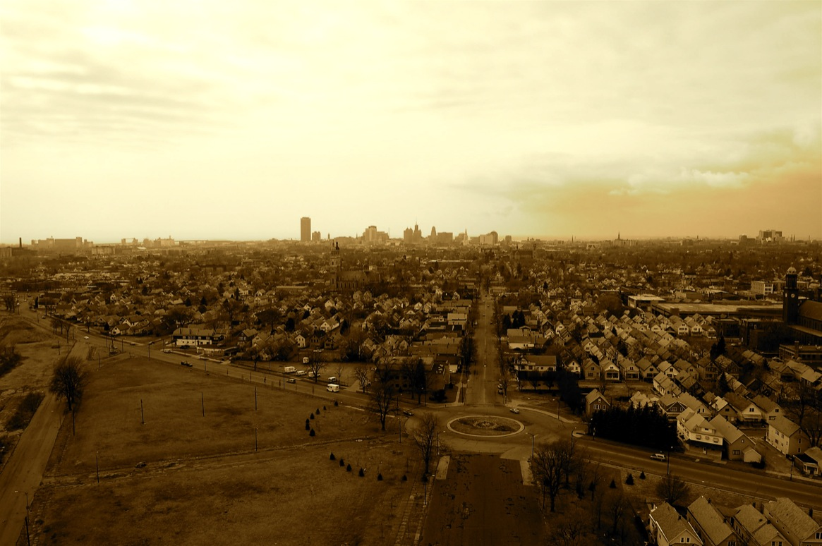 Buffalo skyline as seen from the roof of Buffalo Central Terminal